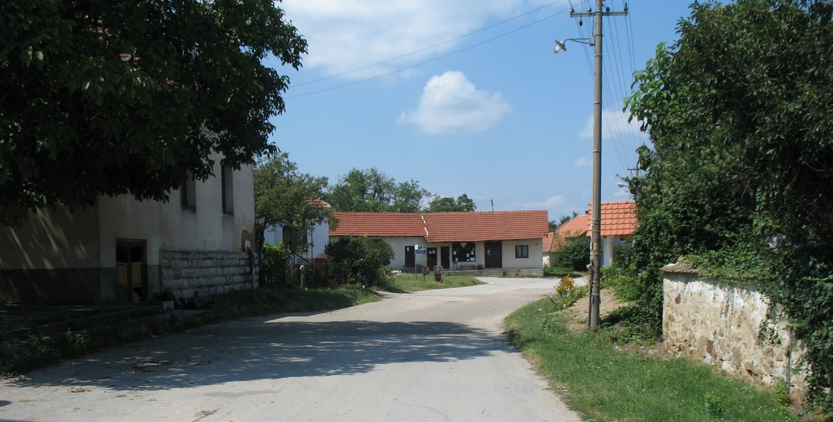 Popovica near Negotin, Serbia.